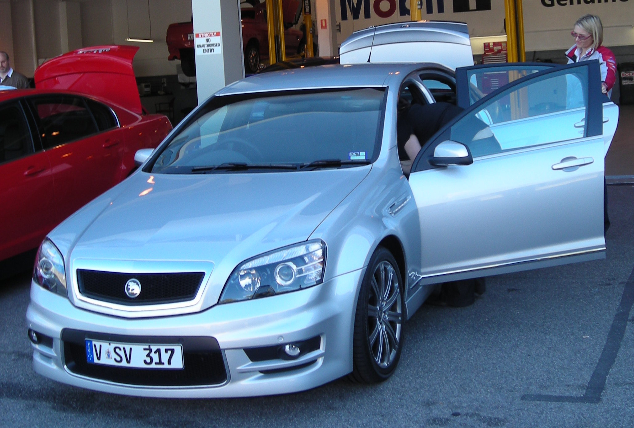 2006–2008 HSV Grange (E Series) sedan, photographed in Australia.